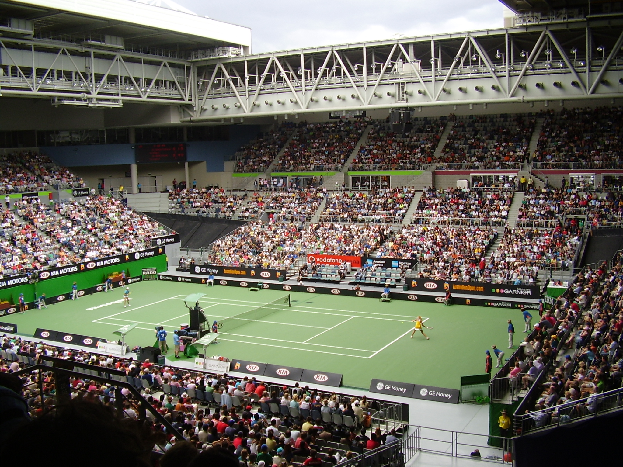 Australian Open 2007, women's fourth round, Elena Dementieva playing Nicole Vaidišová at Vodafone Arena on January 21, 2007